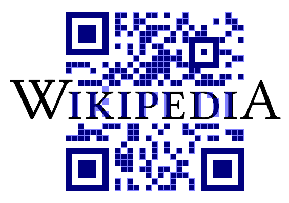 Illustrates why the artistically enhanced File:Extreme QR code to Wikipedia mobile page.png is still scannable.